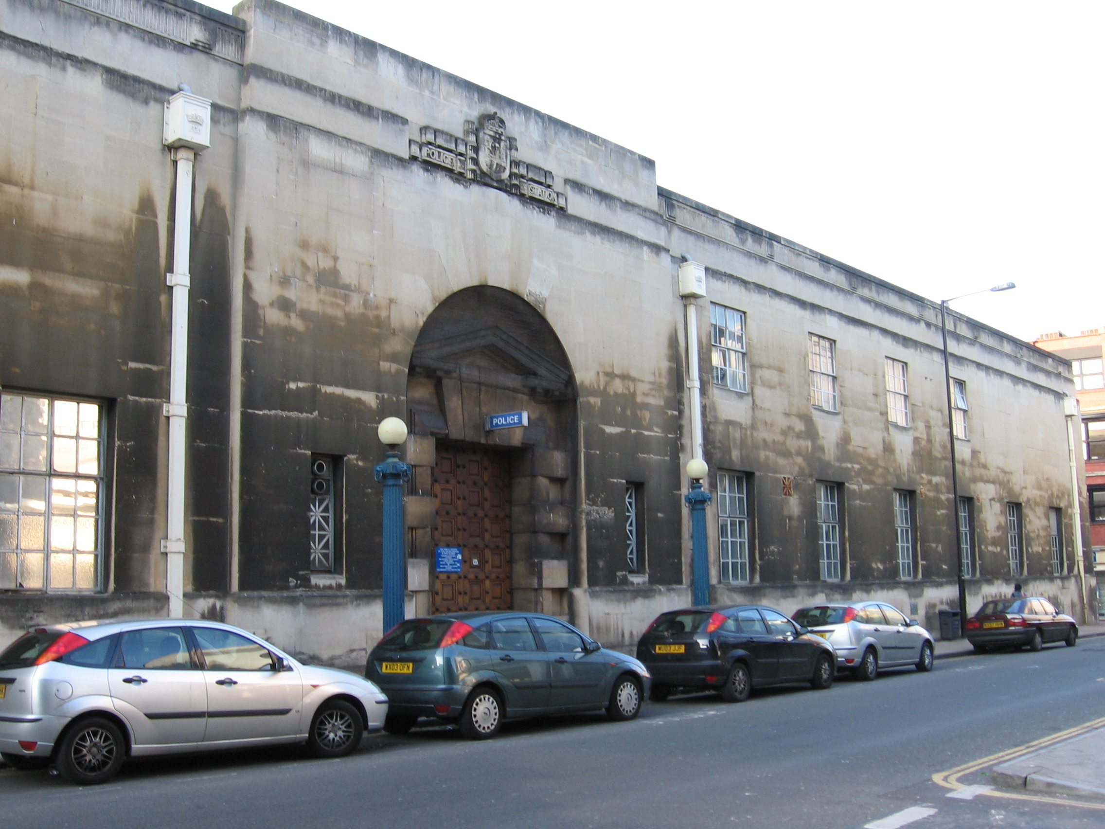 The Central Police Station building in Bristol, UK. By Ivor Jones and Percy Thomas. Listed Grade II [1]